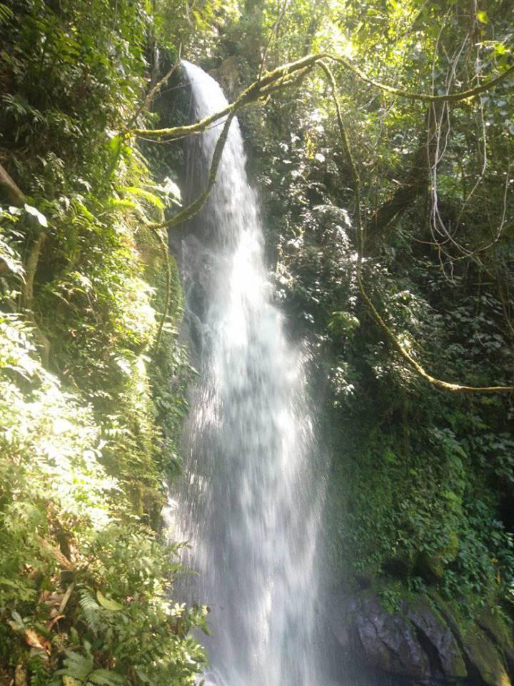 A falls located at Mt. Isarog